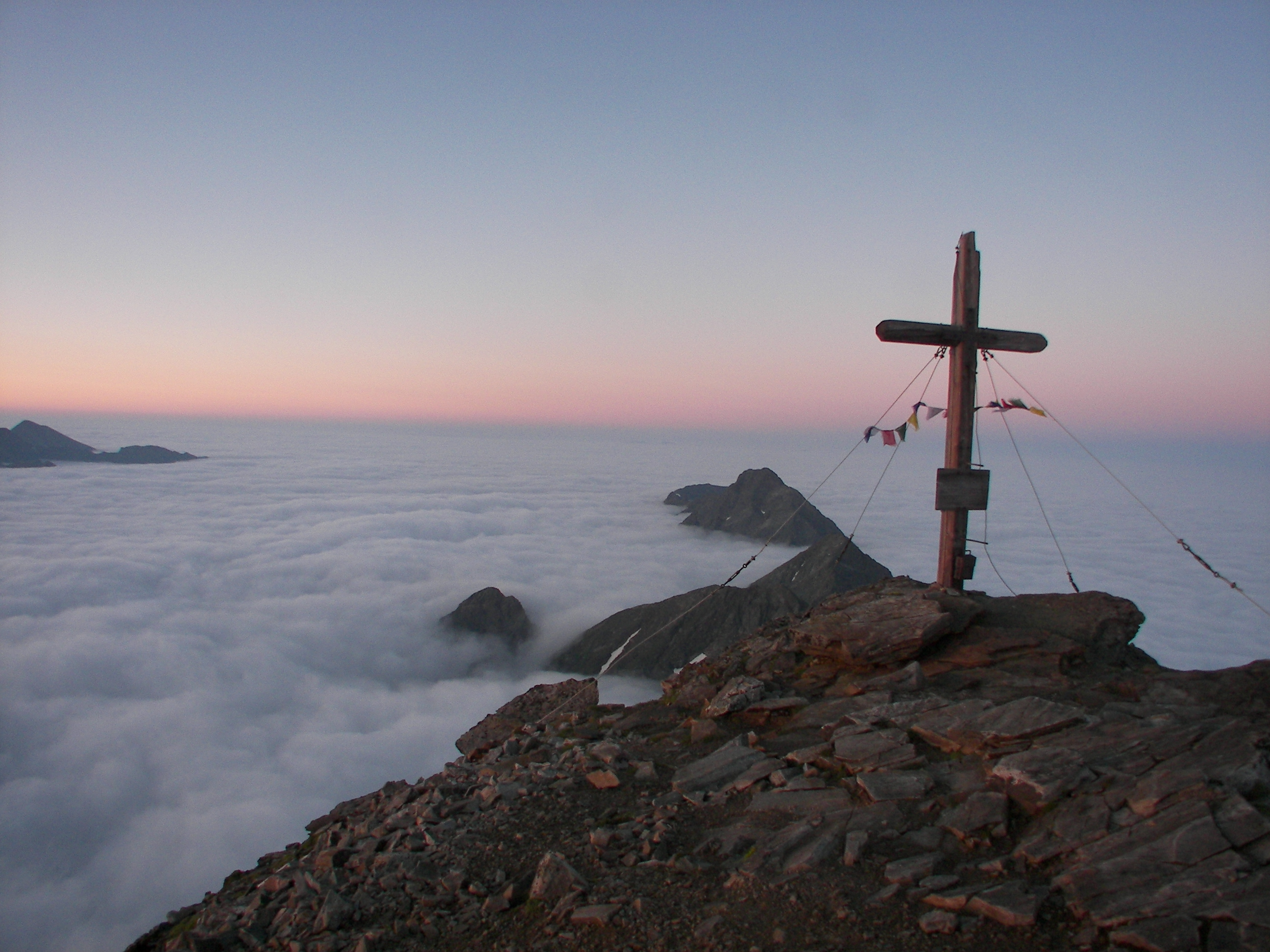 Hochgolling, Styria